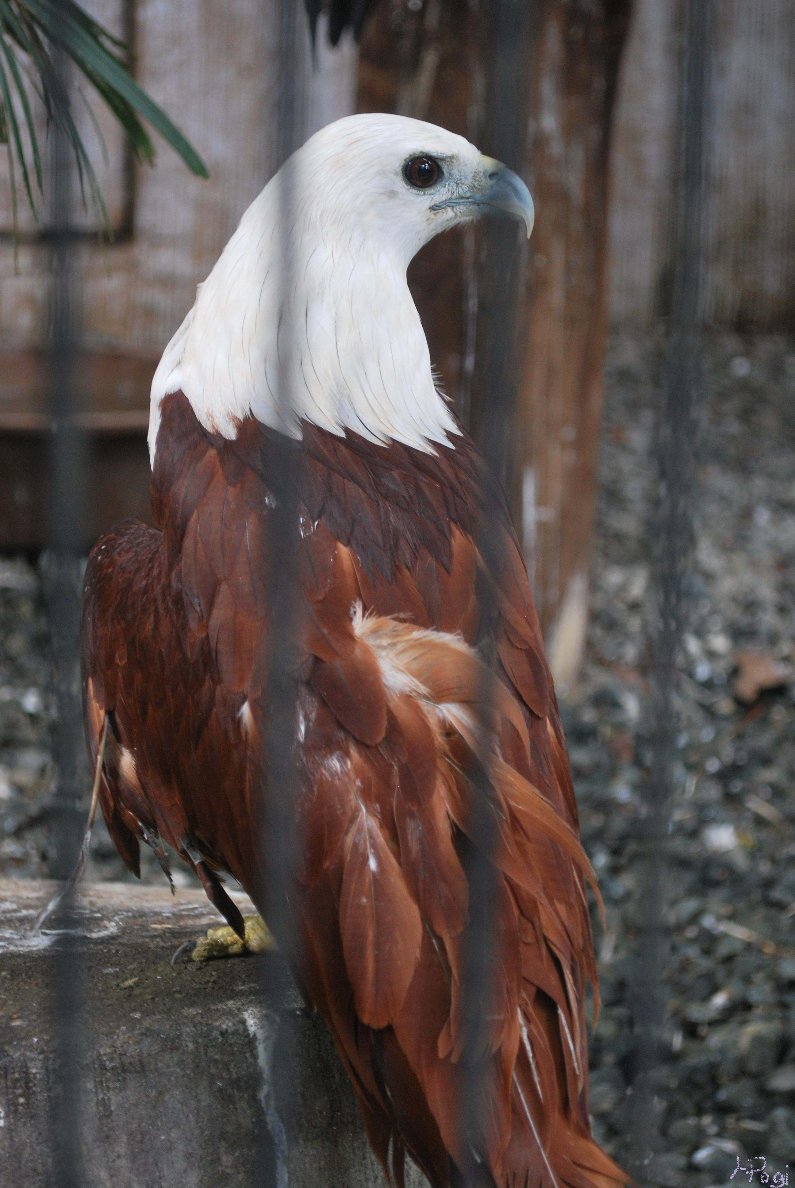 Brahminy Kite in captivity